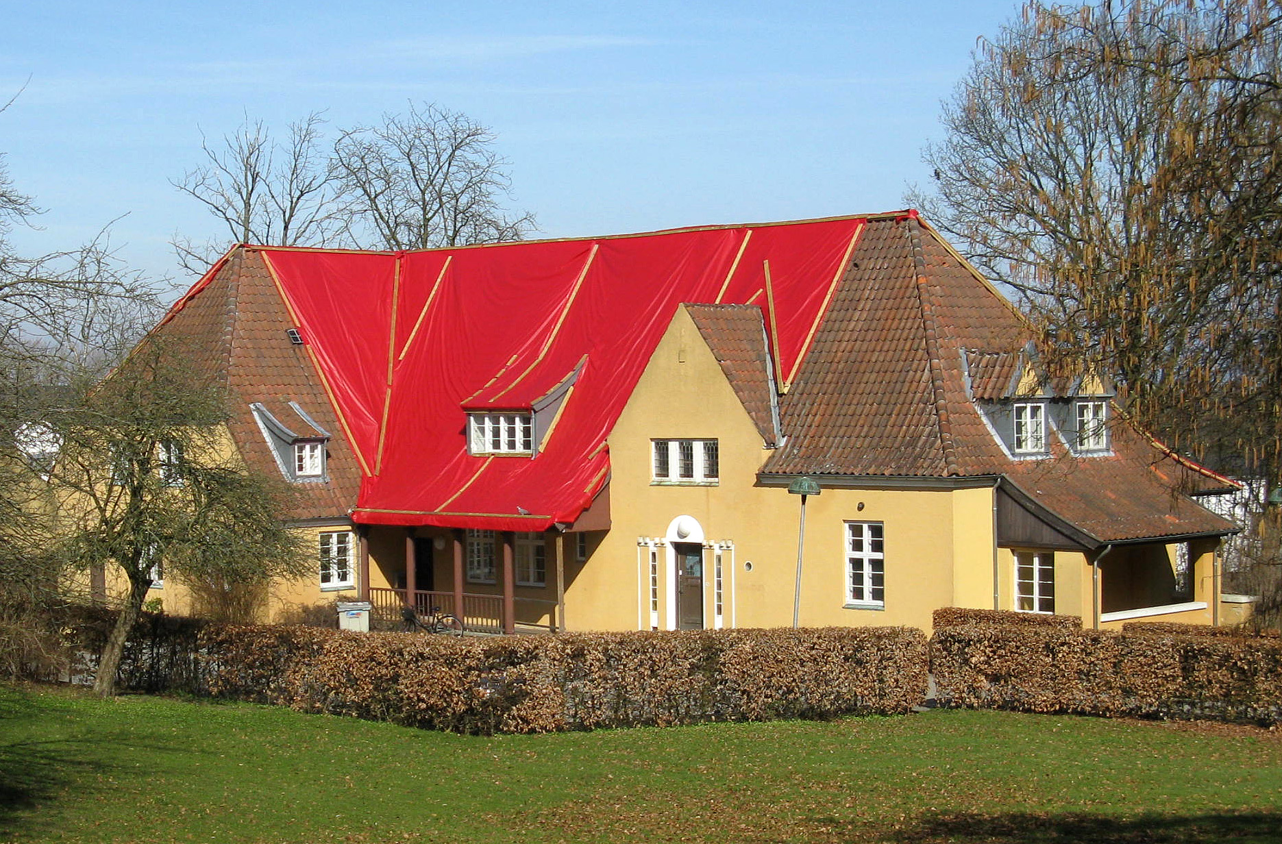 Head's residence of the observatory Ole Rømer Observatoriet in Århus, Denmark designed by architect Anton Rosen in 1910-1911. The buildings are being restored here.